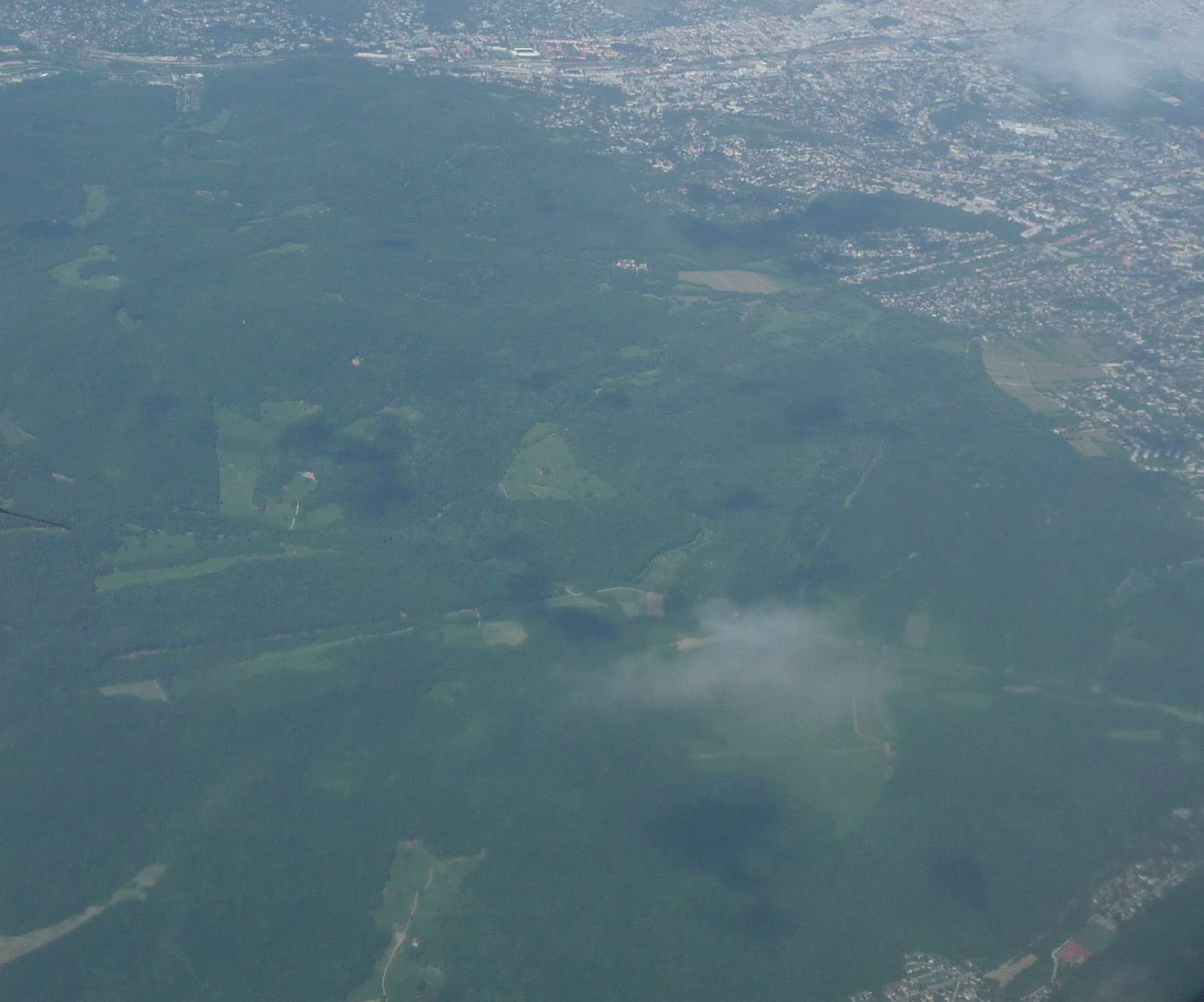 Vienna by Air